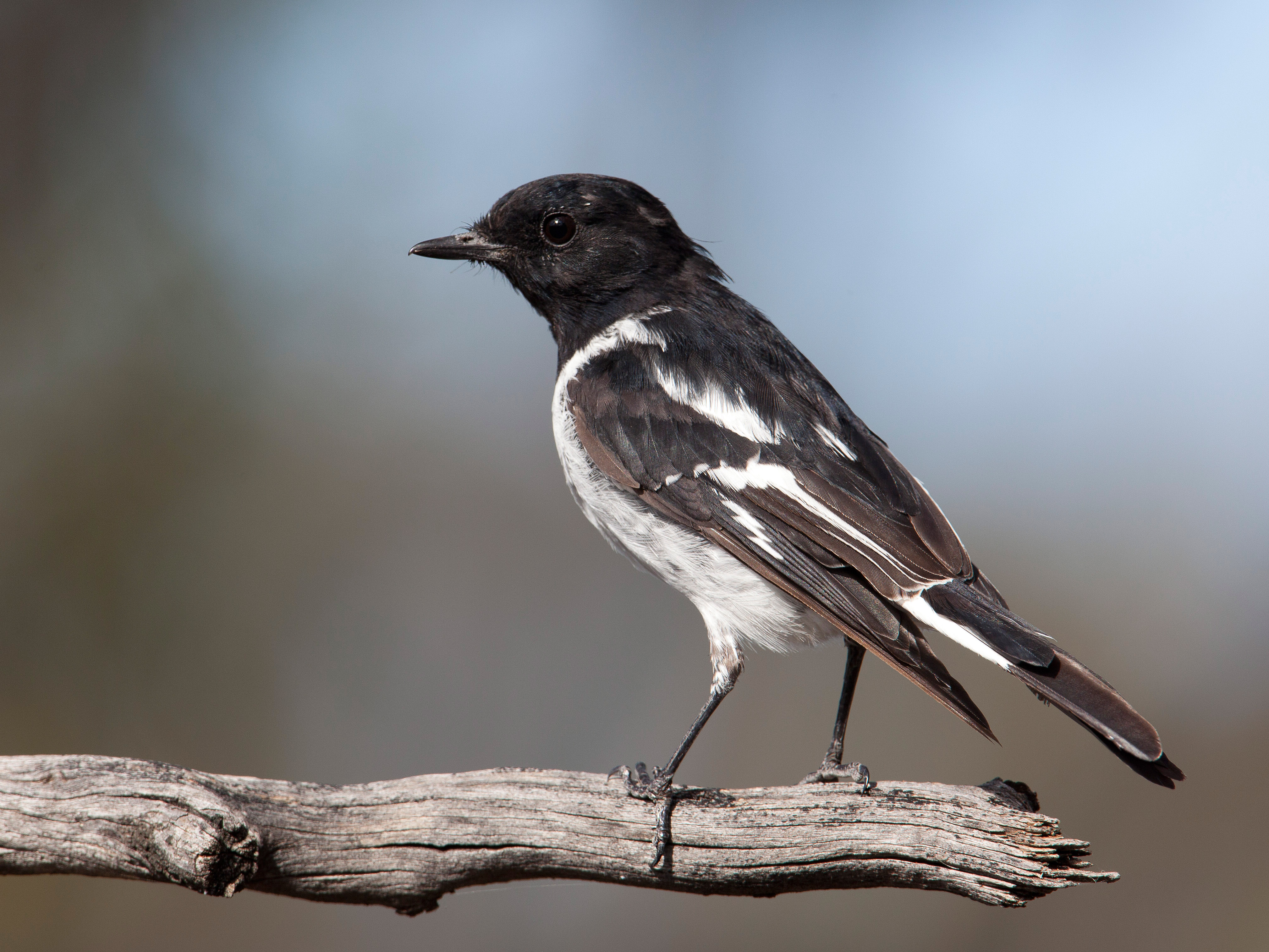 I was lucky to come across a pair of Hooded Robins that were very friendly and stayed close, allowing me to get quite a few shots. This species is declining in many states but there seem to be quite a few in the open Mallee and woodland of my area.